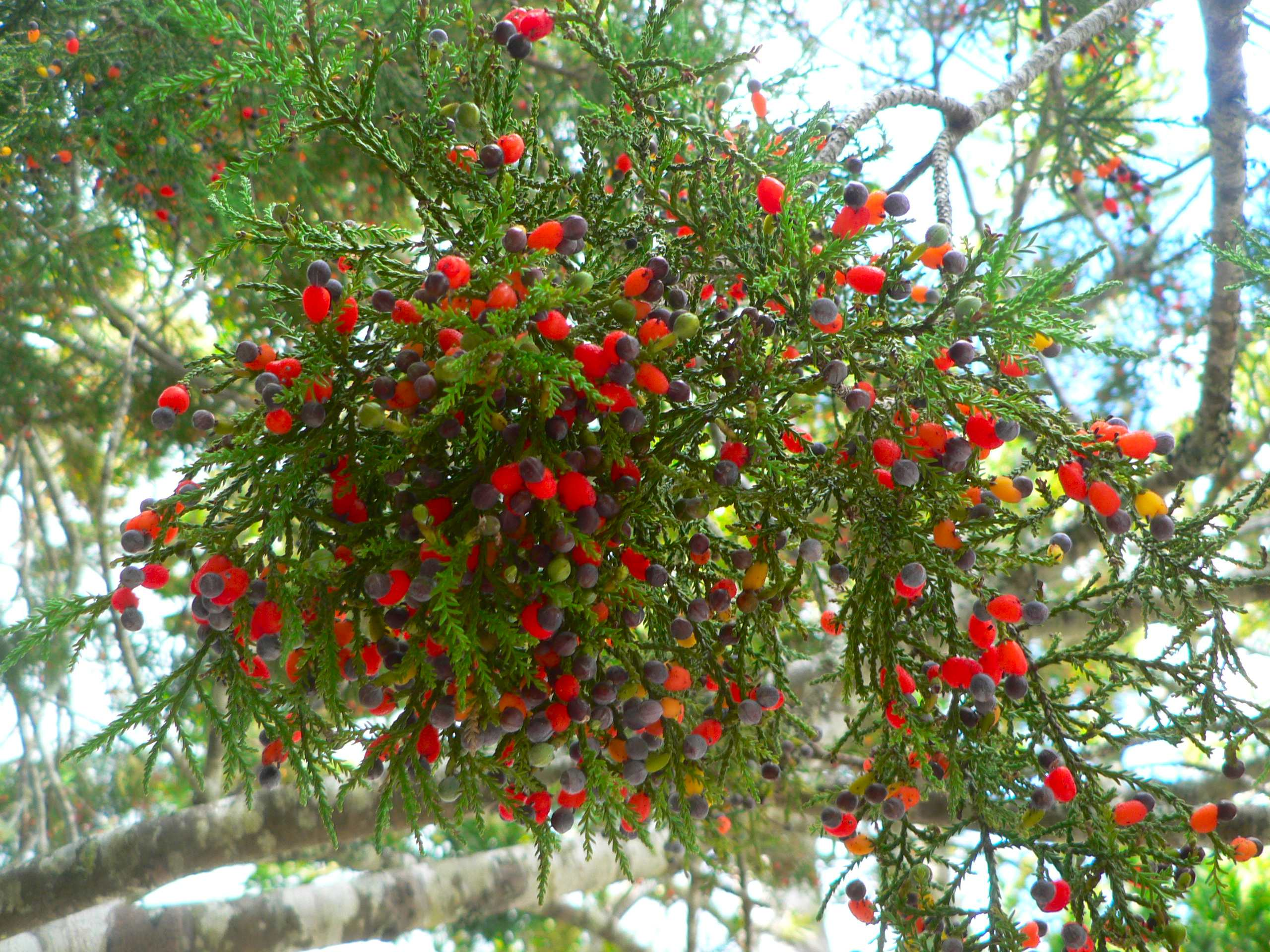 Dacrycarpus dacrydioides foliage and cones, Waiatarua, Auckland, New Zealand, 36°56'48"S, 174°36'25"E.